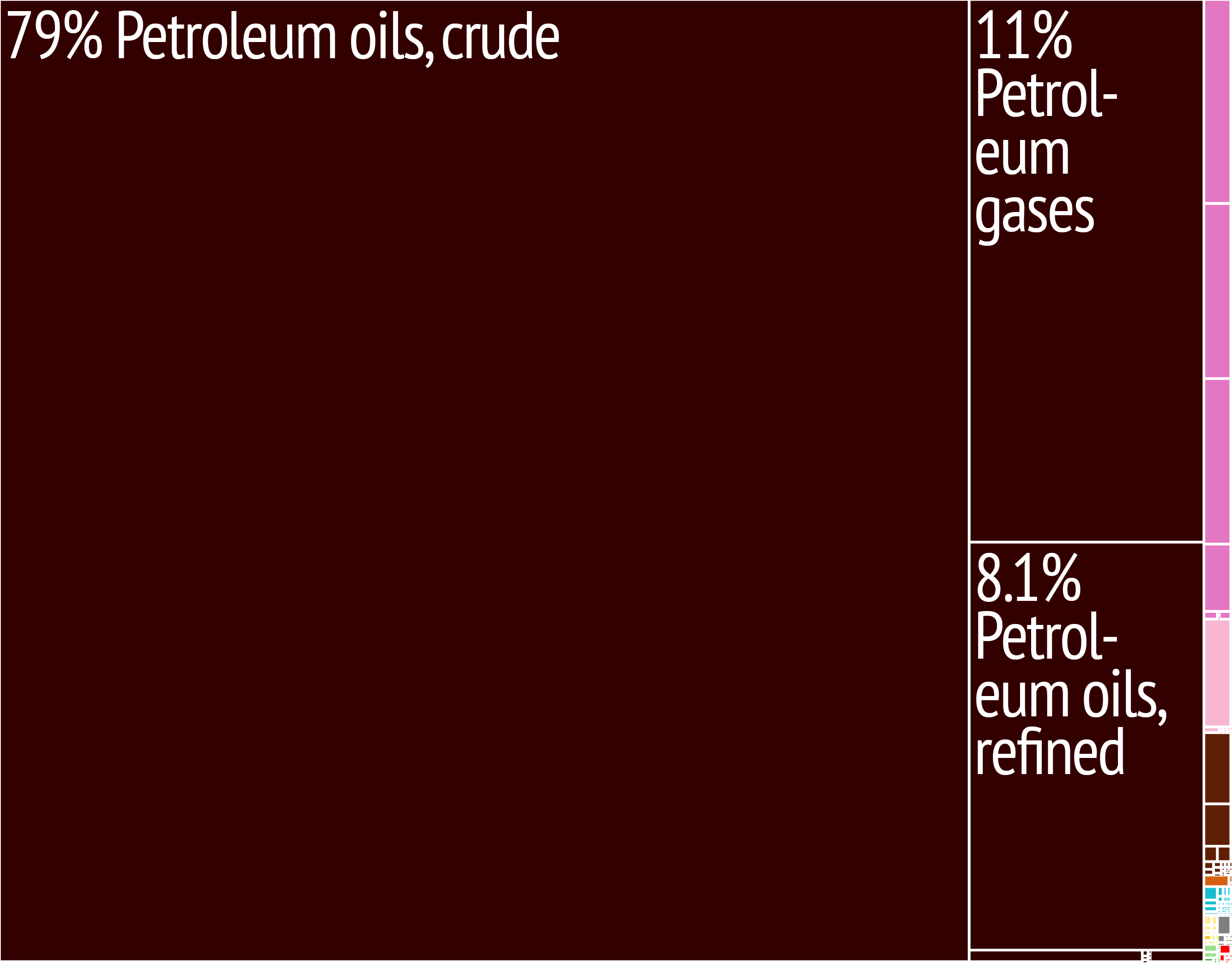 Libya Export Treemap from MIT Harvard Economic Complexity Observatory